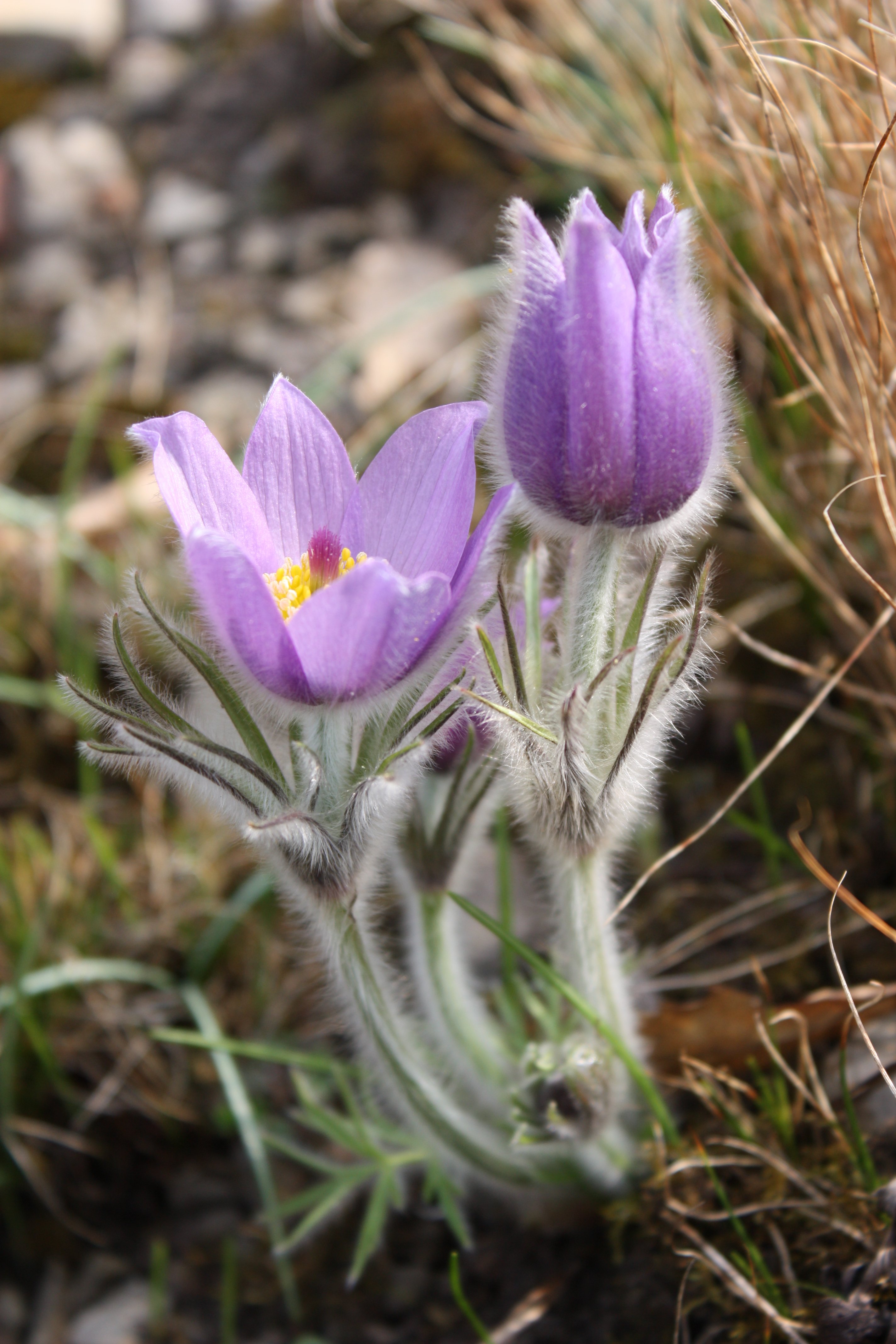 Pulsatilla vulgaris, Botanical Garden of the Goethe University Frankfurt